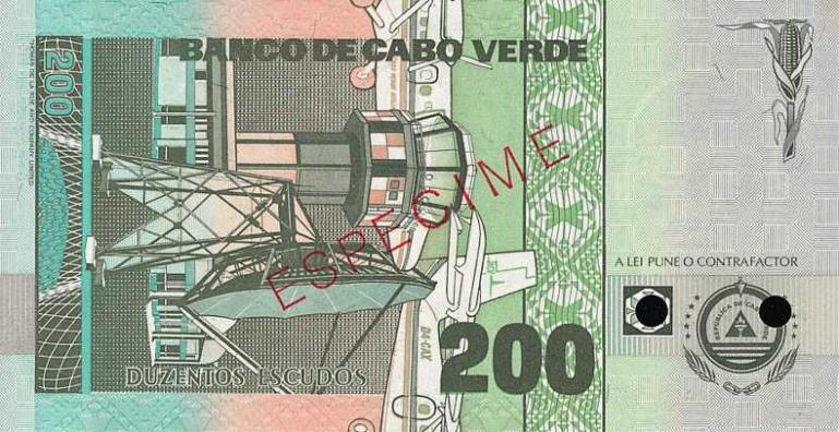 Cape-verdean 1992 200CVE note - back